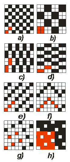 Various simple weave patterns. a) - tabby; b) - panama; c) - warp rep; d) - weft rep; e) - twill; f) - wedge-shaped twill; g) - weft satin; h) - warp satin